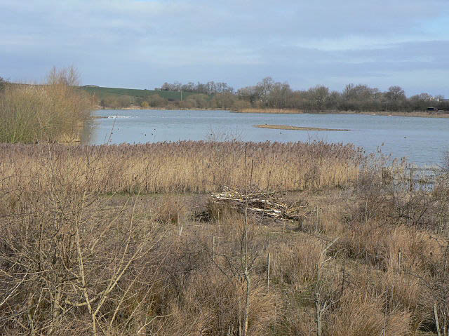 Northern lagoon, Summer Leys Reserve The view north from one of the many birdwatching hides. This one provides a good range of small birds in the scrubland in the foreground as well as longer views across the lagoon.